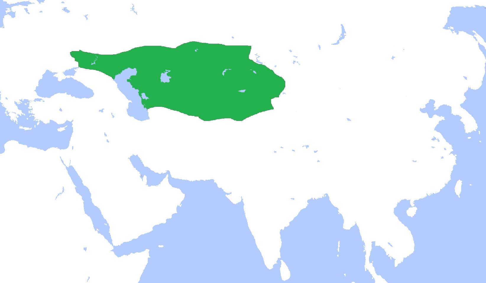 Locator map of the Western Gökturks, c. 612-630.